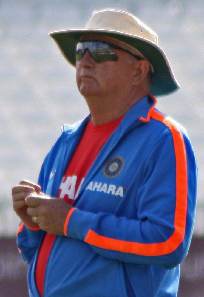 Duncan Fletcher during a net session with India prior to their warm up match against Somerset at the County Ground, Taunton, during their three day warm up match to start their 2011 tour of England.